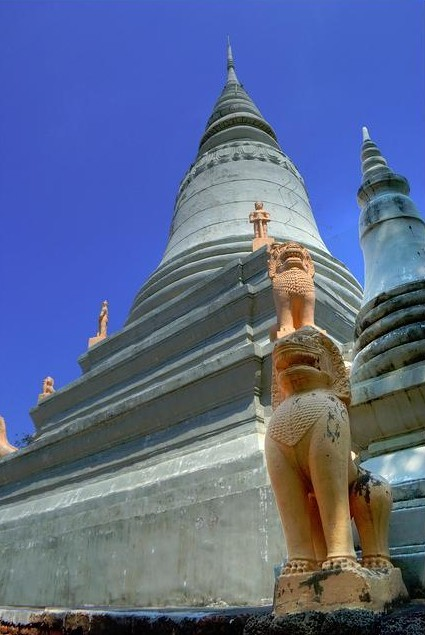 Stupa — at Wat Phnom. Located in the North end of Phnom Penh, it is believed that Lady Penh settled at Wat Phnom